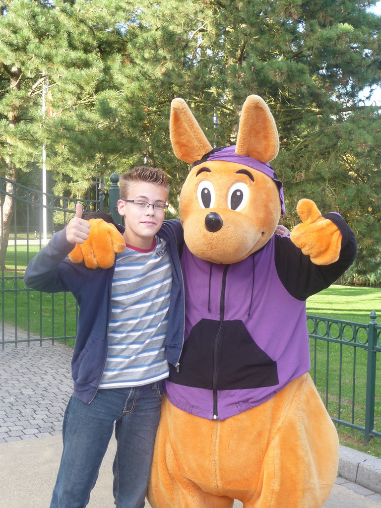 Walibi Mascotte in Walibi World